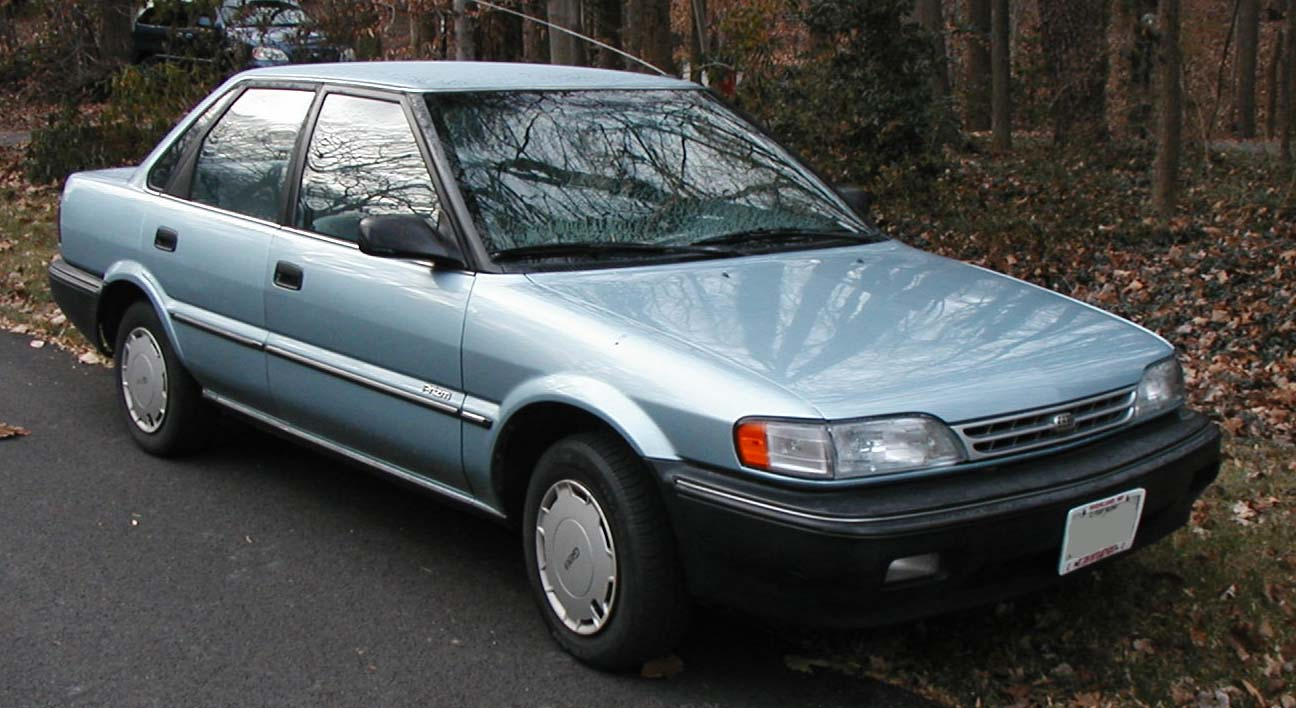 1990-1992 Geo Prizm photographed in USA.